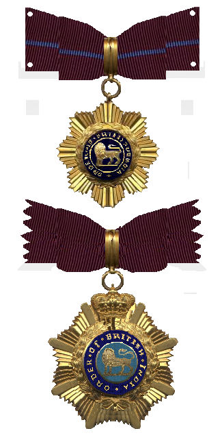 Order of British India as between 1939 and 1947